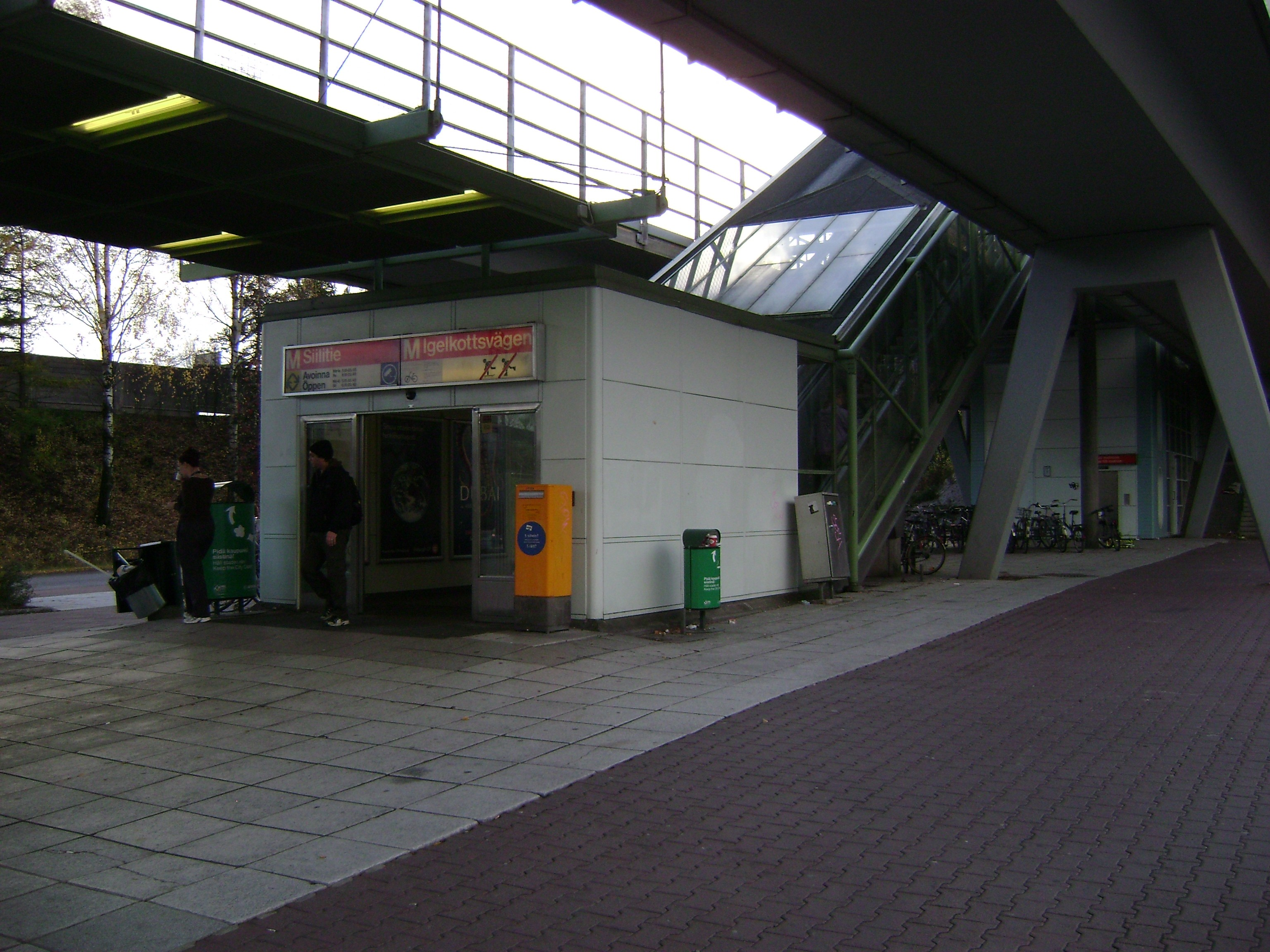 Siilitie metro station, entrace in ground level.